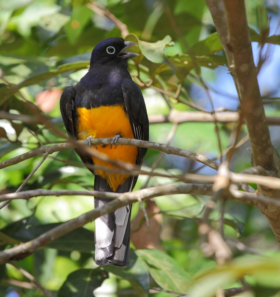 White-tailed Trogon male at Restinga de Bertioga State Park - SP - Brazil